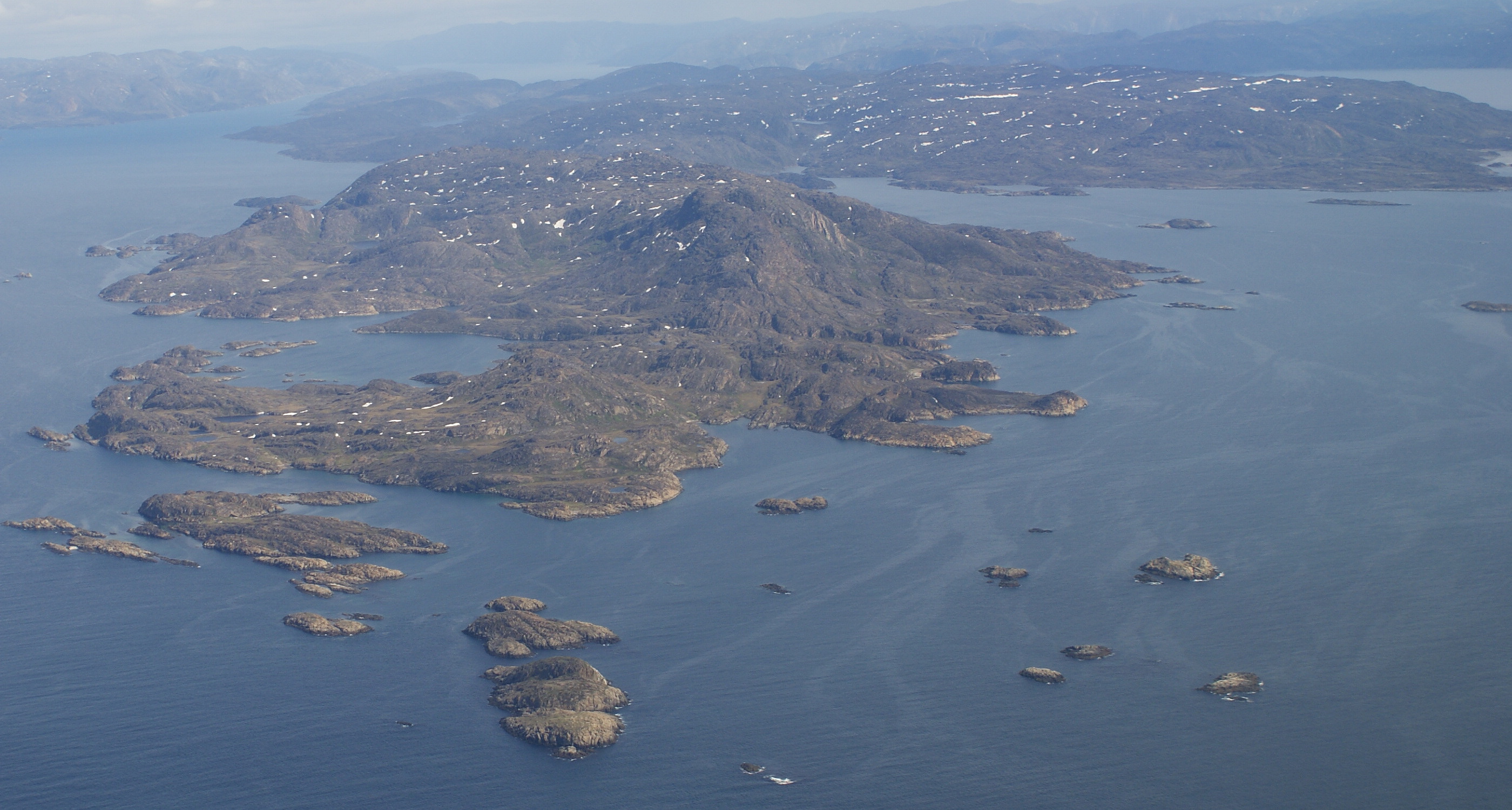 Aerial view of Maniitsorsuaq and Sarfannguit Nunataat (Sarfannguit Island) in central-western Greenland. Photographed from the Air Greenland de Havilland Canada Dash-7 "Sululik" during the Sisimiut-Nuuk flight.